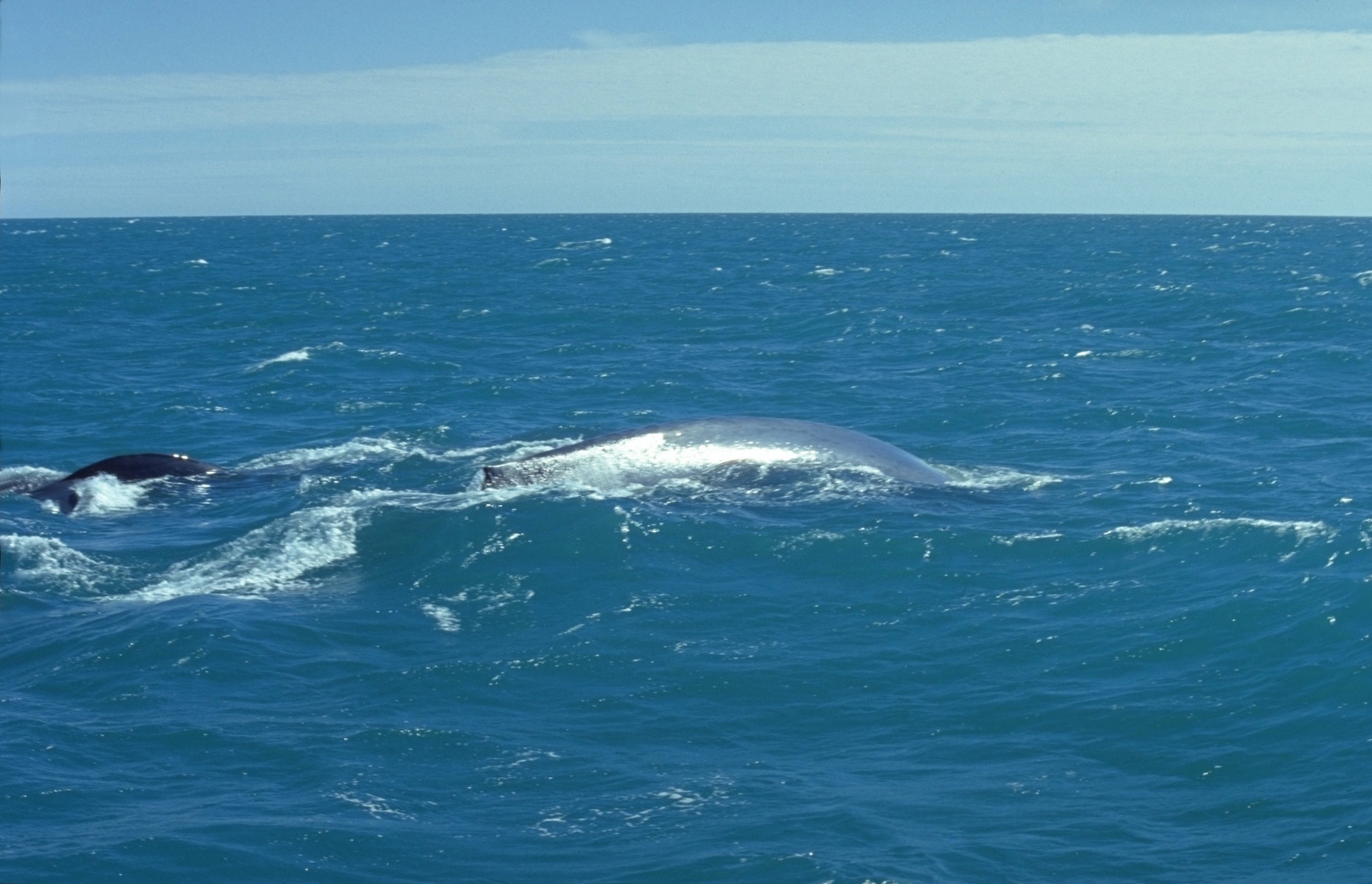 Blue Whale (Balaenoptera musculus) with calf when diving, Ólafsvík, Iceland Photo was taken using the following technique: Film: Kodak Elitechrome Extracolor Lens: 4/70-210 Filter: none Body: Minolta 7 Support: none Image with Information in English Bild mit Informationen auf Deutsch